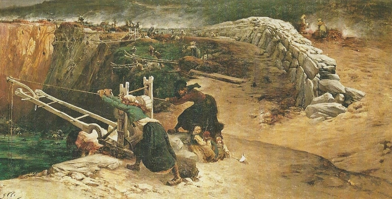 Georges Clairin " Kelp -burning at the Pointe du Raz " (1882 , oil on canvas , 240 x 132 cm , art and history museum , Saint-Brieuc ) . The place represented would be Pors Loubous Plogoff